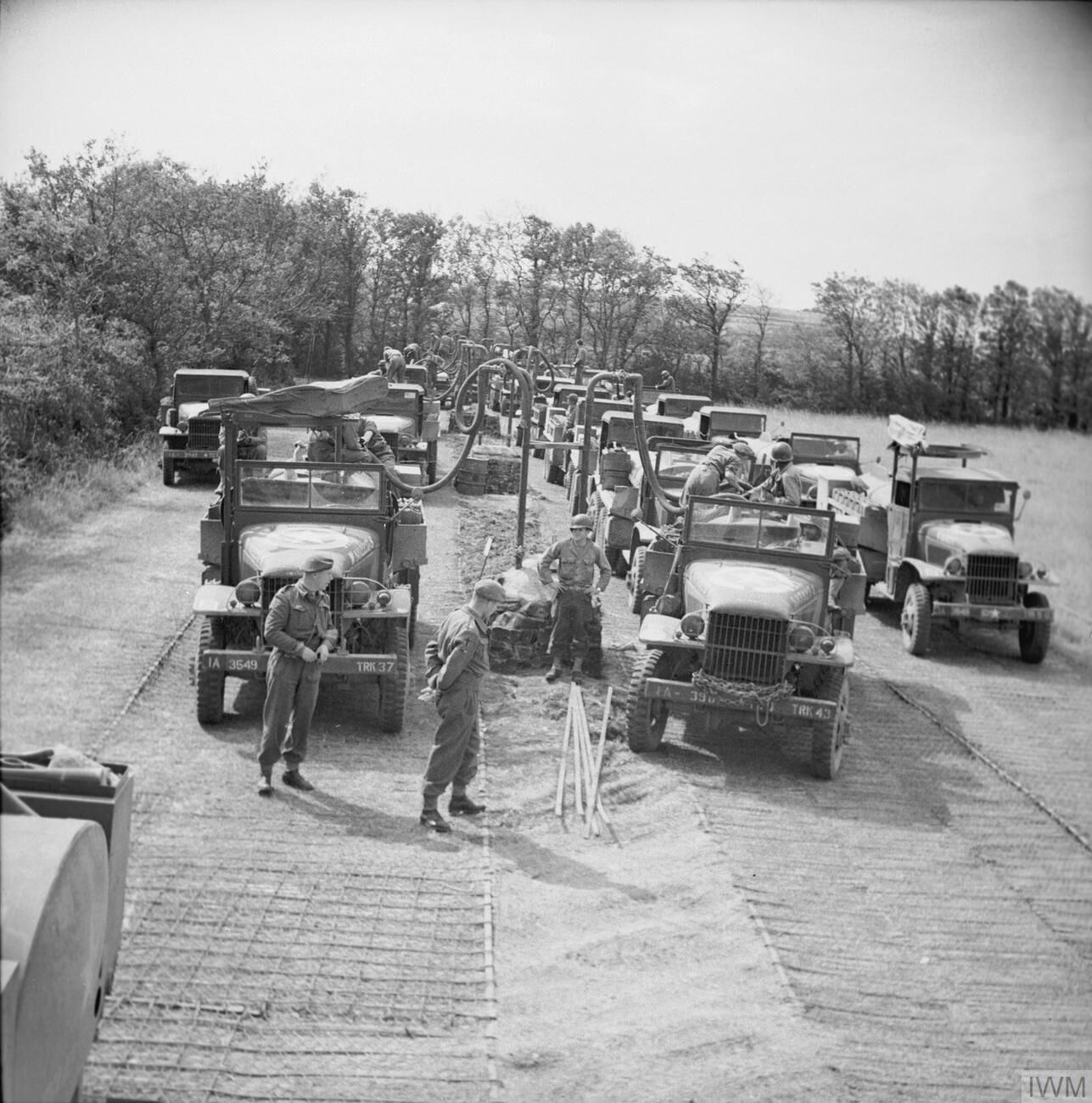 Supplying Allied Forces After D Day, July 1944 GMC two and a half ton 6 x 6 trucks (CCKW-353) parked on expanded metal standings, taking on fuel supplies.